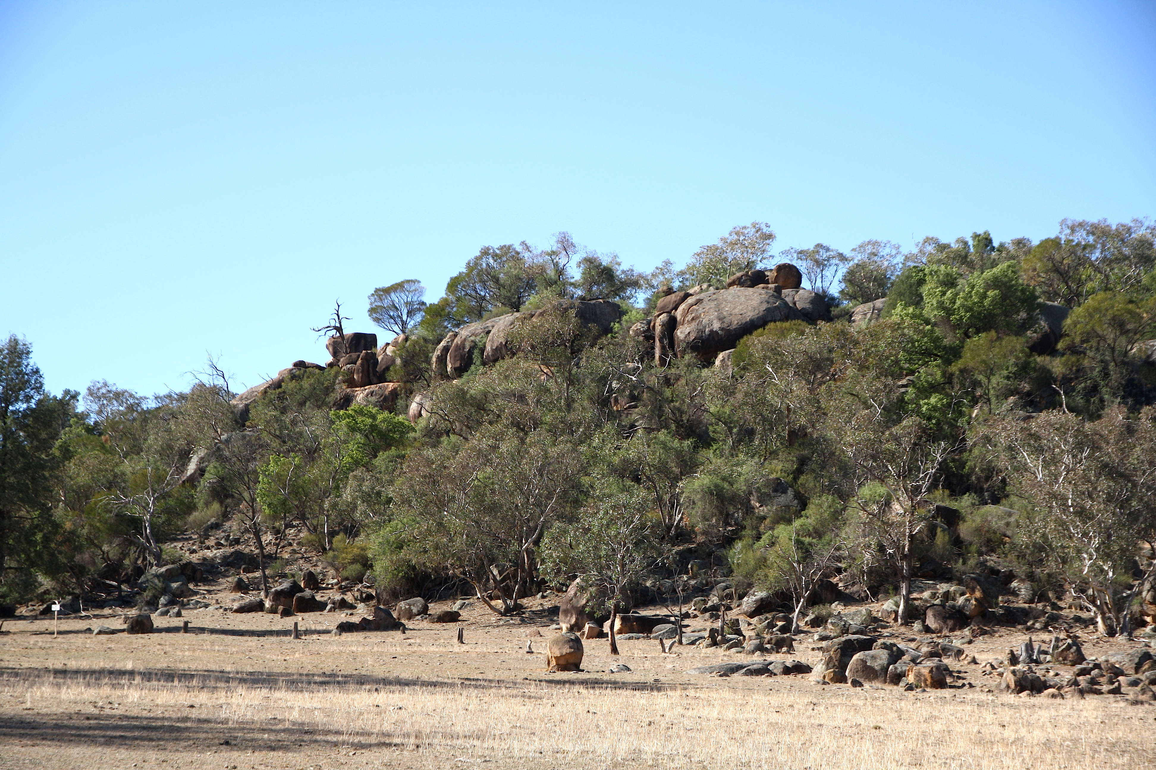 Scene of the sensational gold escort robbery of June 1862. The old coaching road ran along the foot of this prominence. Composed of huge boulders, Eugowra Rocks provided an excellent hiding place and defensive position for the bushrangers, who were able to fire down on the gold escort as though from the heights of a fortress. The site is now on private property, and can be viewed only from The Escort Way adjacent.